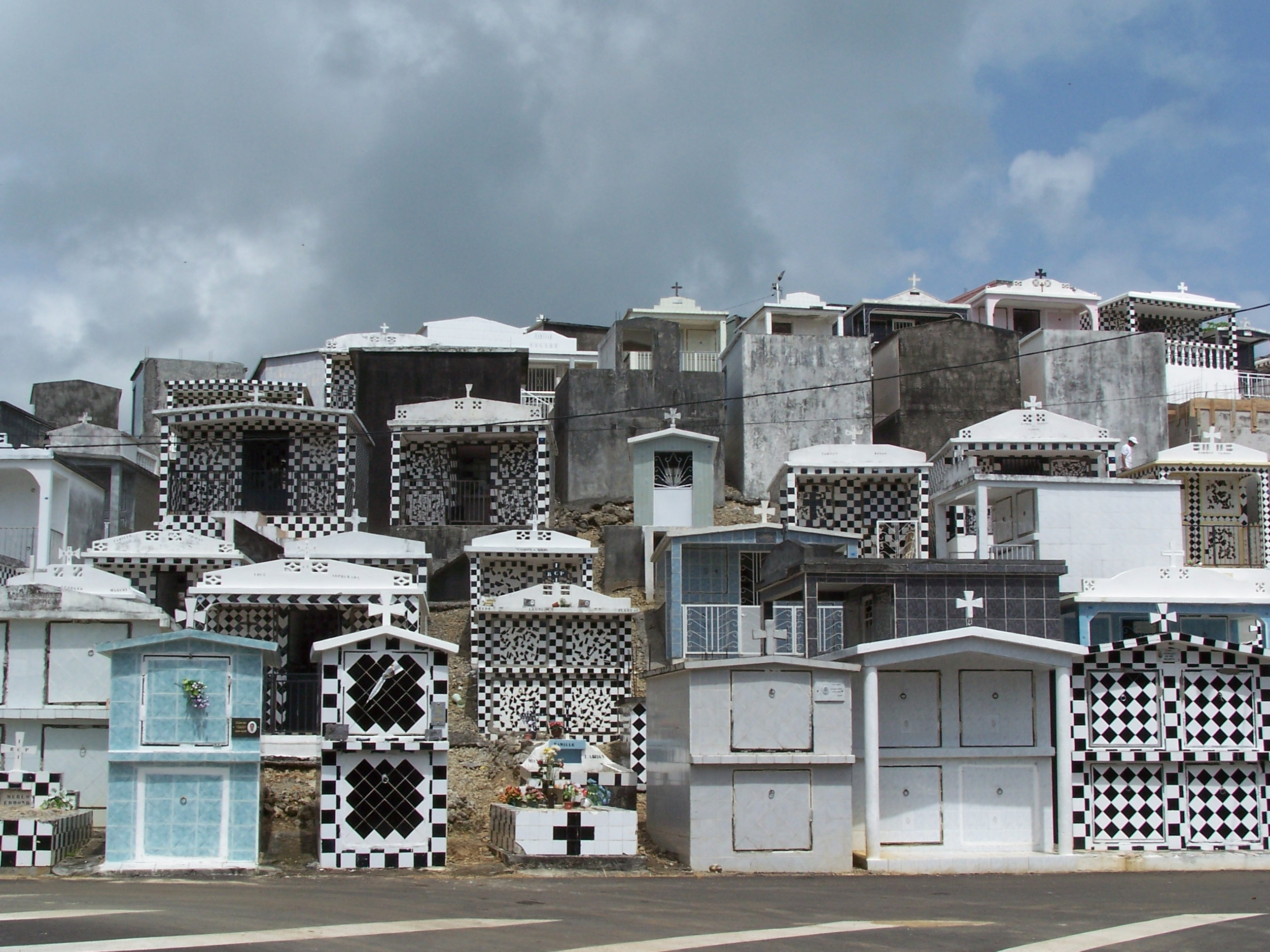 Cemetery of Morne-à-l'Eau in Guadeloupe